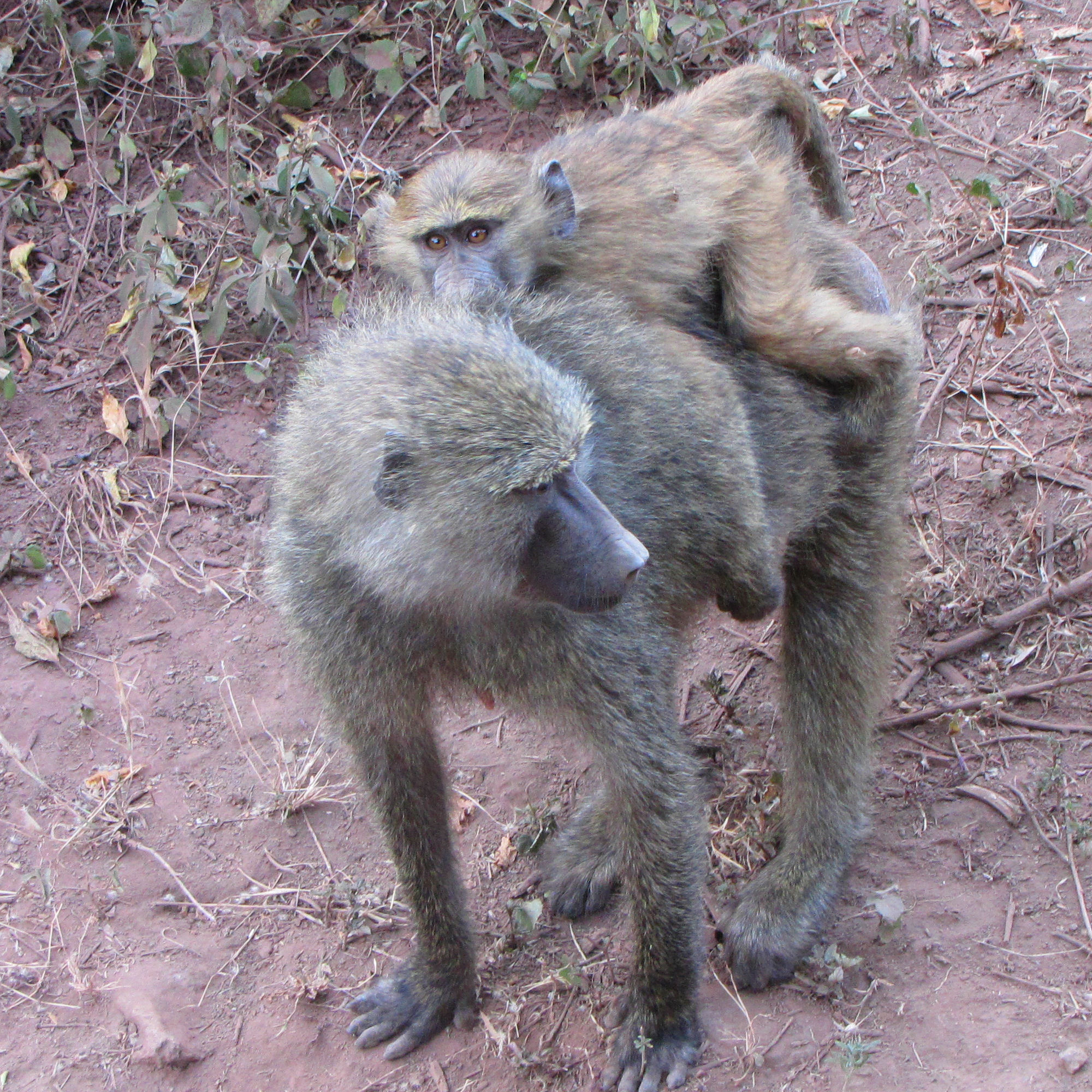 Olive Baboon (Papio anubis), female and baby, Serengeti Park, Tanzania